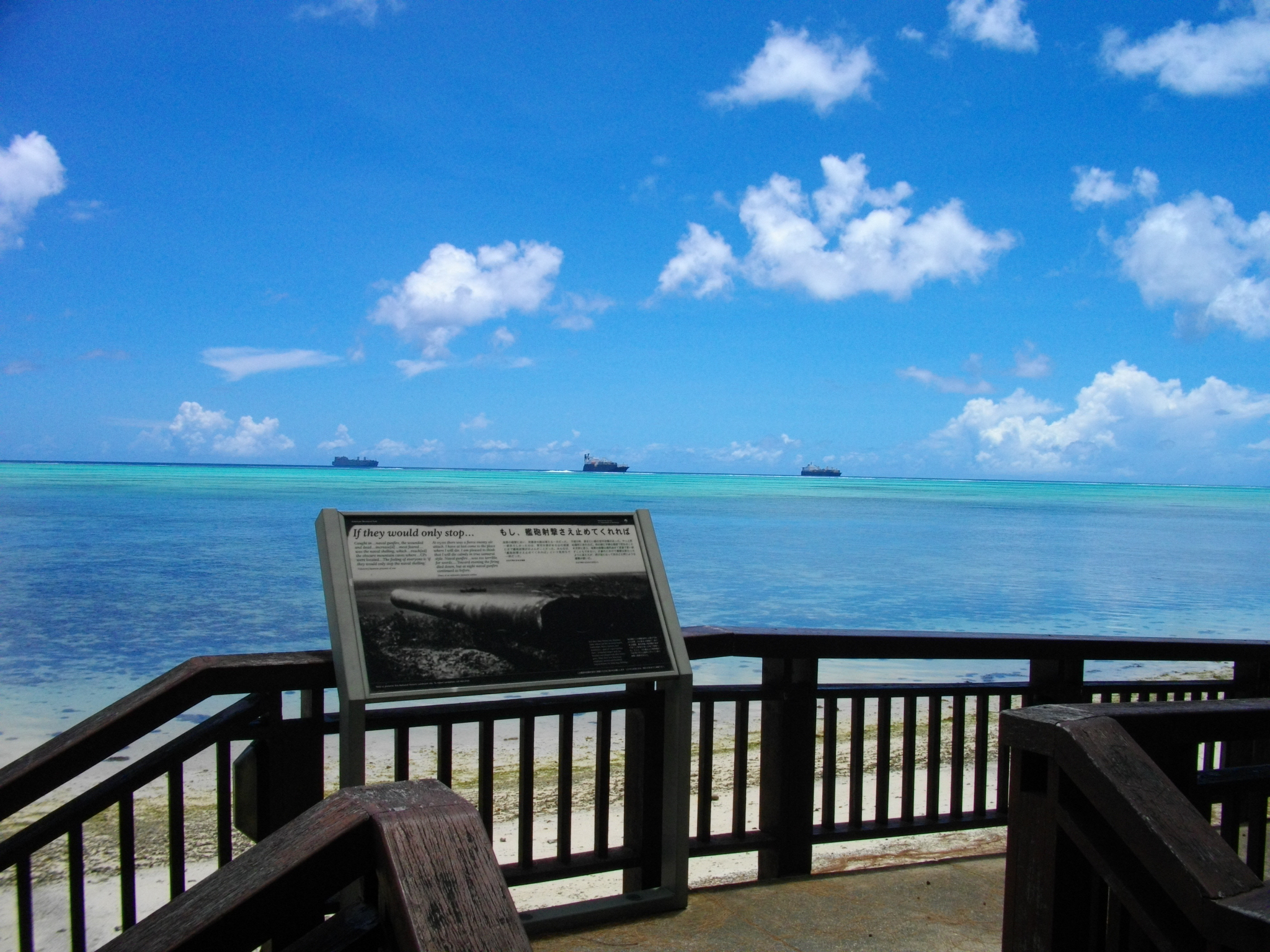 Landing Beach